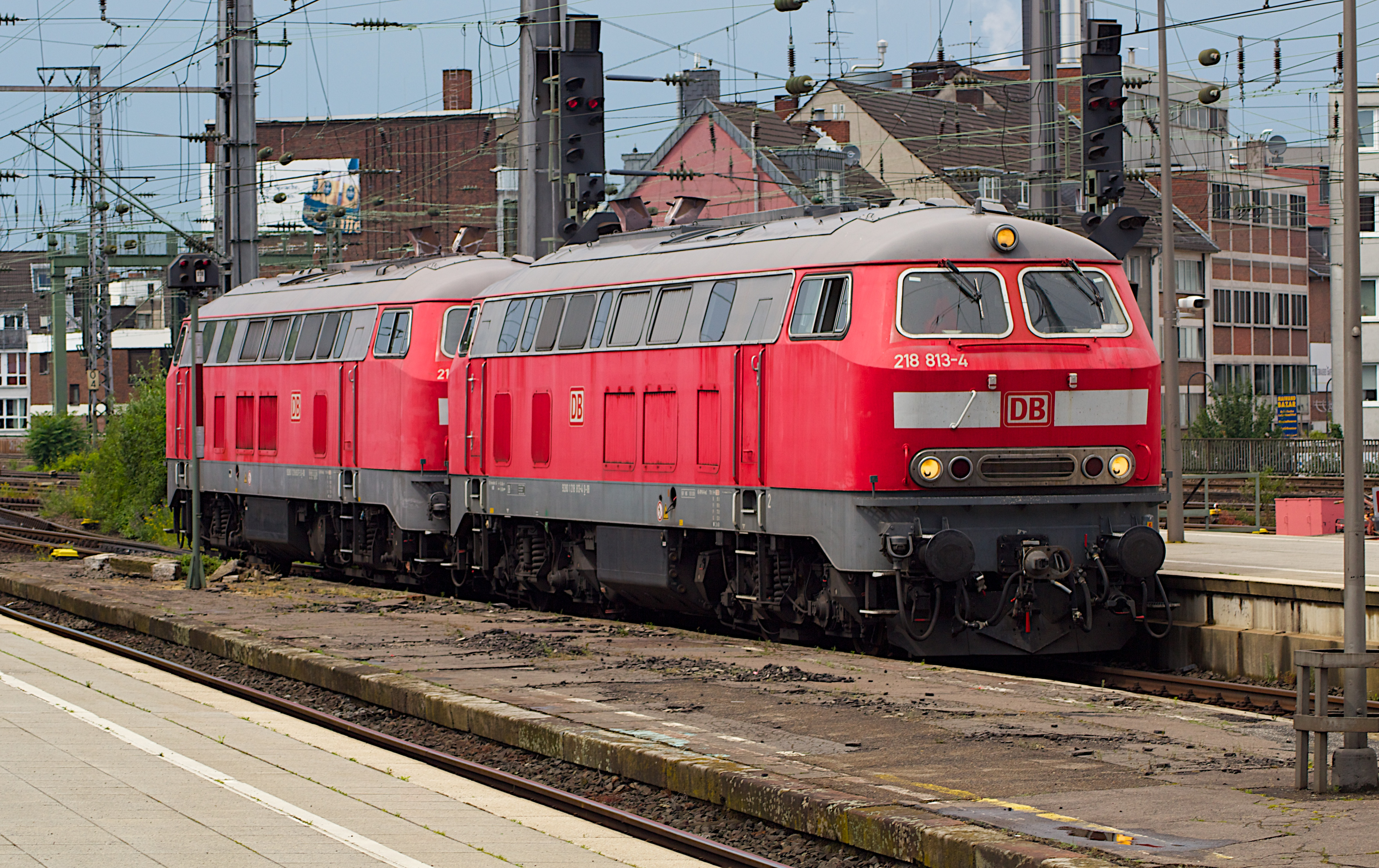 218 813-4 and a sister locomotive at Köln Hauptbahnhof.